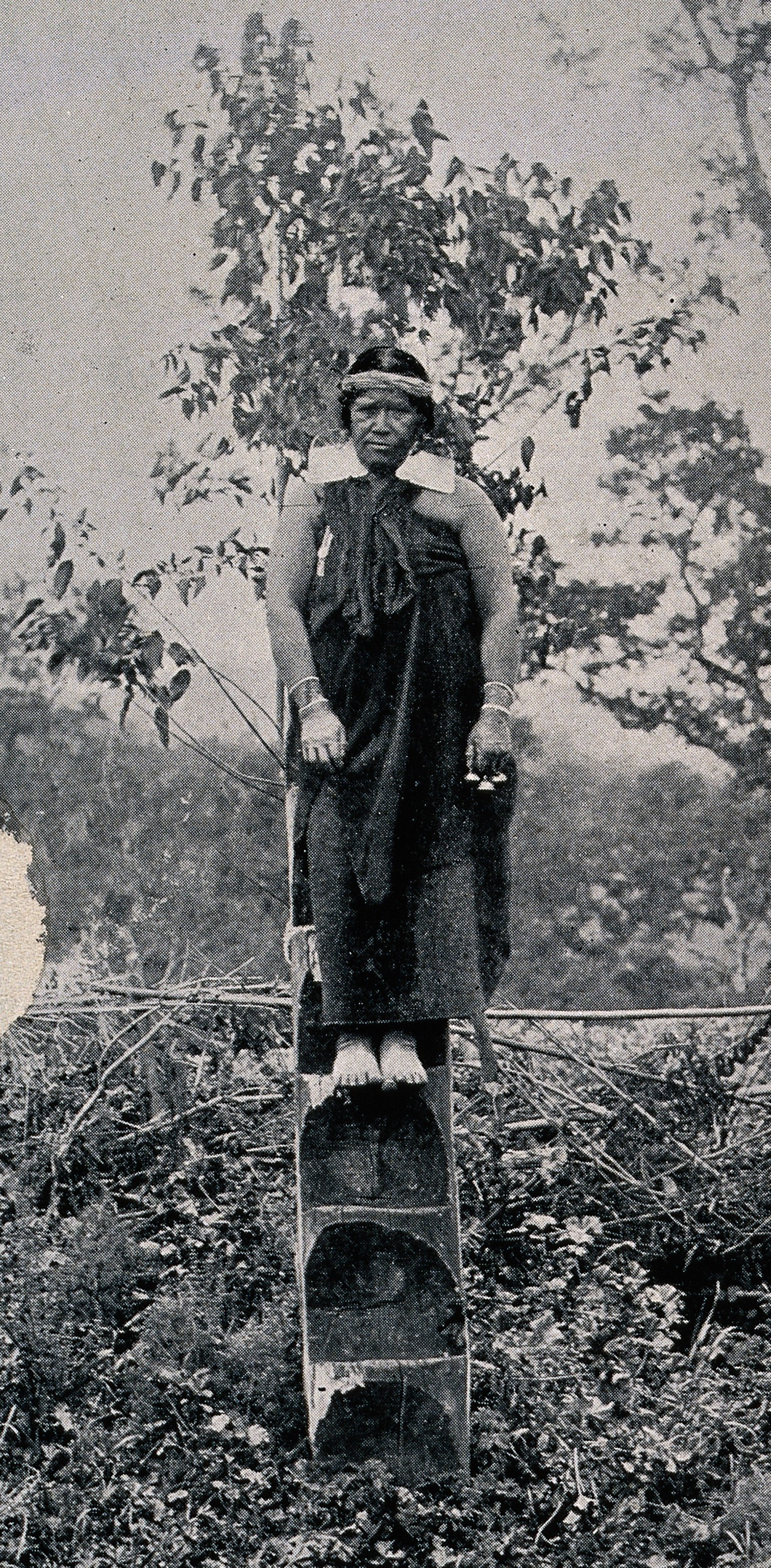 A shaman or medicine woman, Araucania, Chile. Halftone. Iconographic Collections